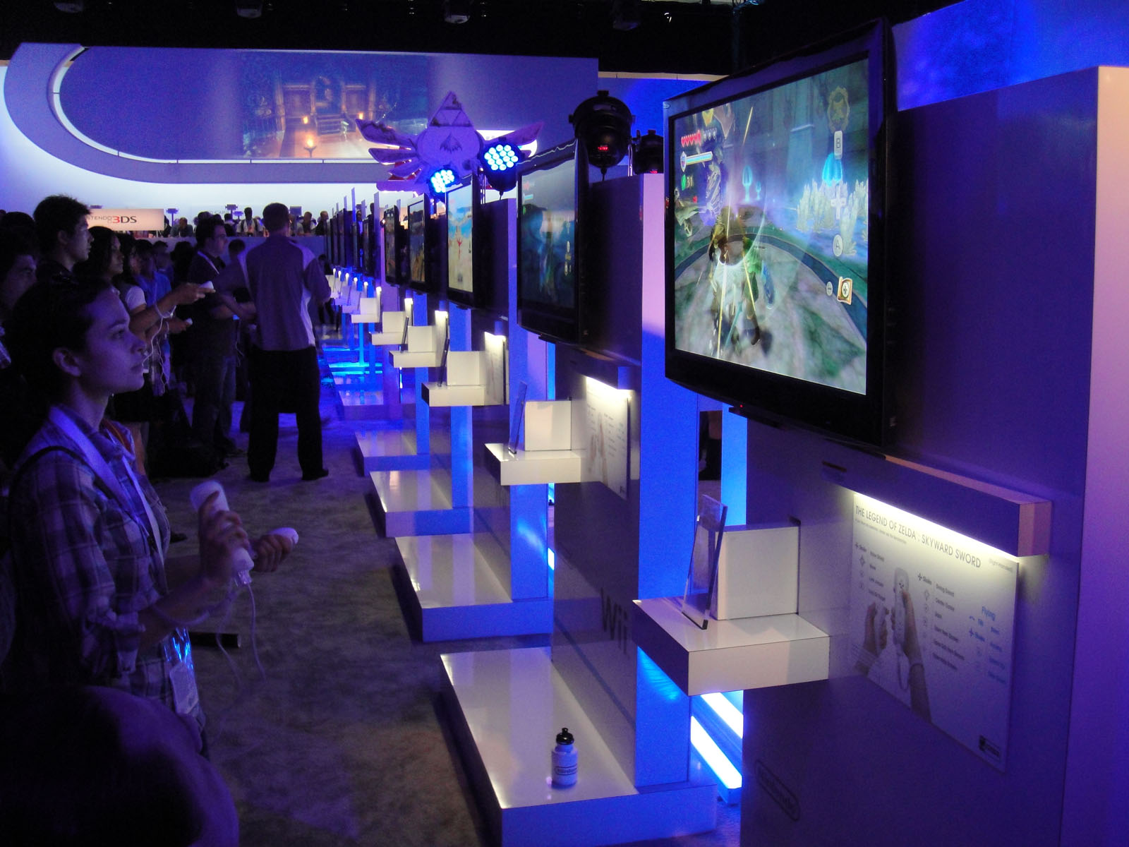 photo 2011 taken by Doug Kline If you're interested in higher resolution versions of my images, contact me via my profile page.